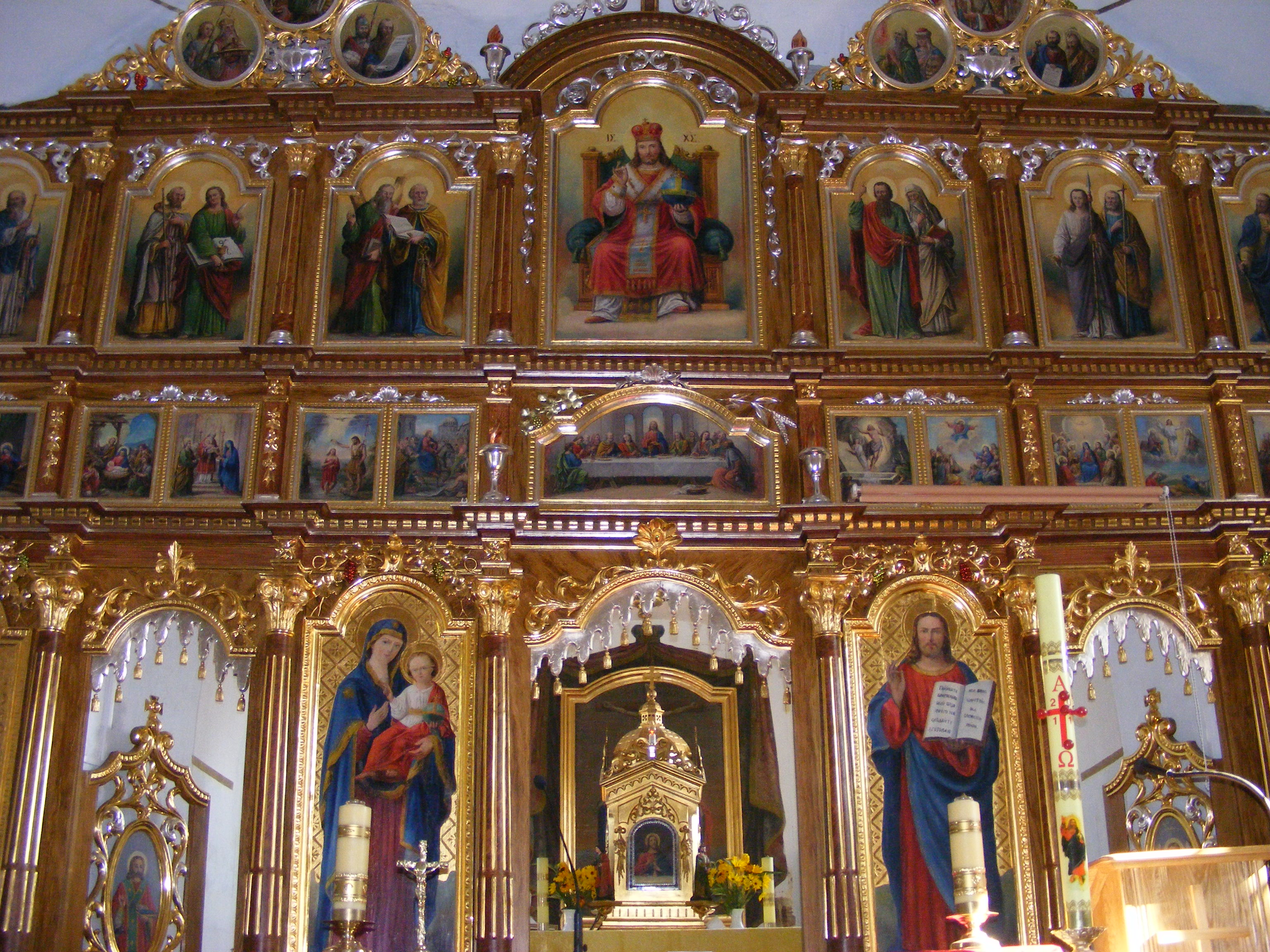 The iconostasis, of the former Greek Church pw. Birth of the Theotokos in Trzciana.